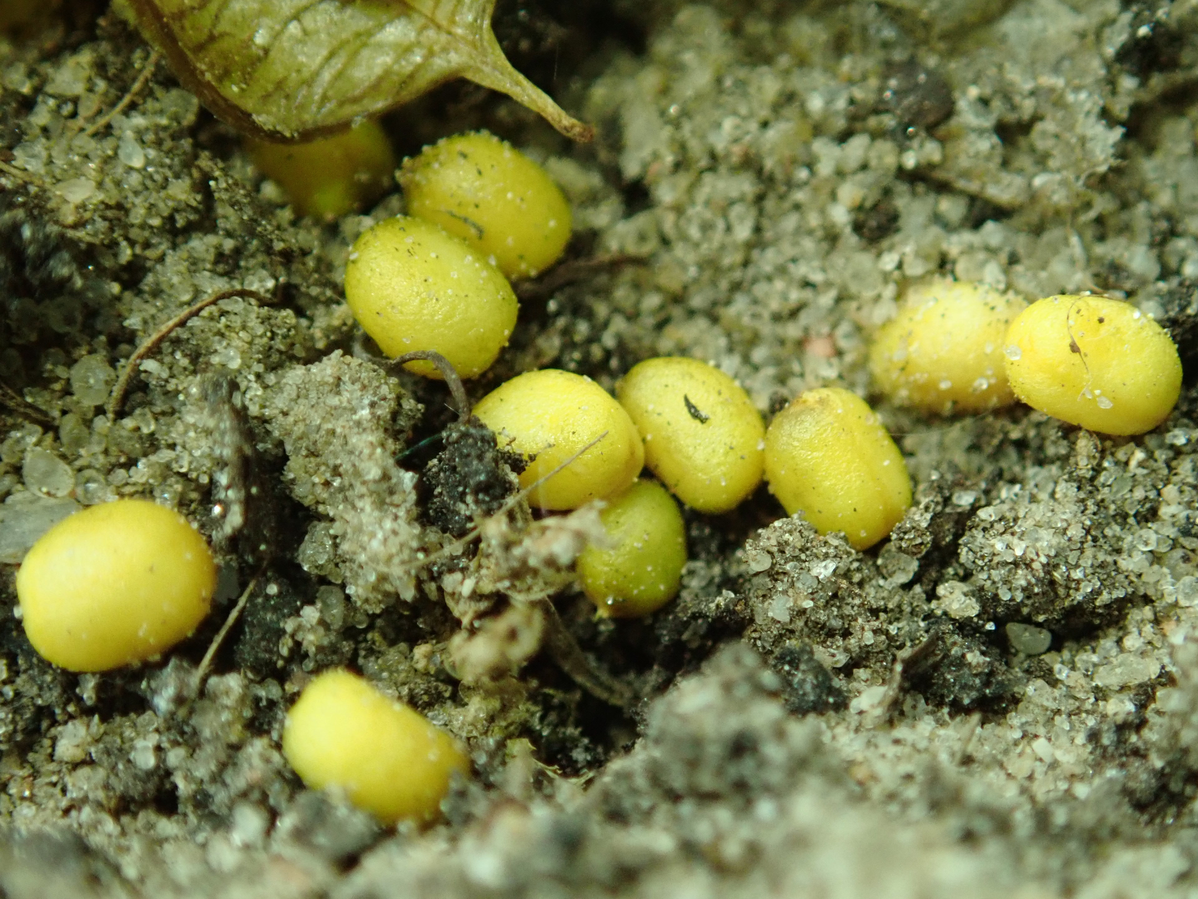 Eranthis hyemalis seeds, allotment garden in Szczecin, West Pomeranian Voivodeship, Poland.